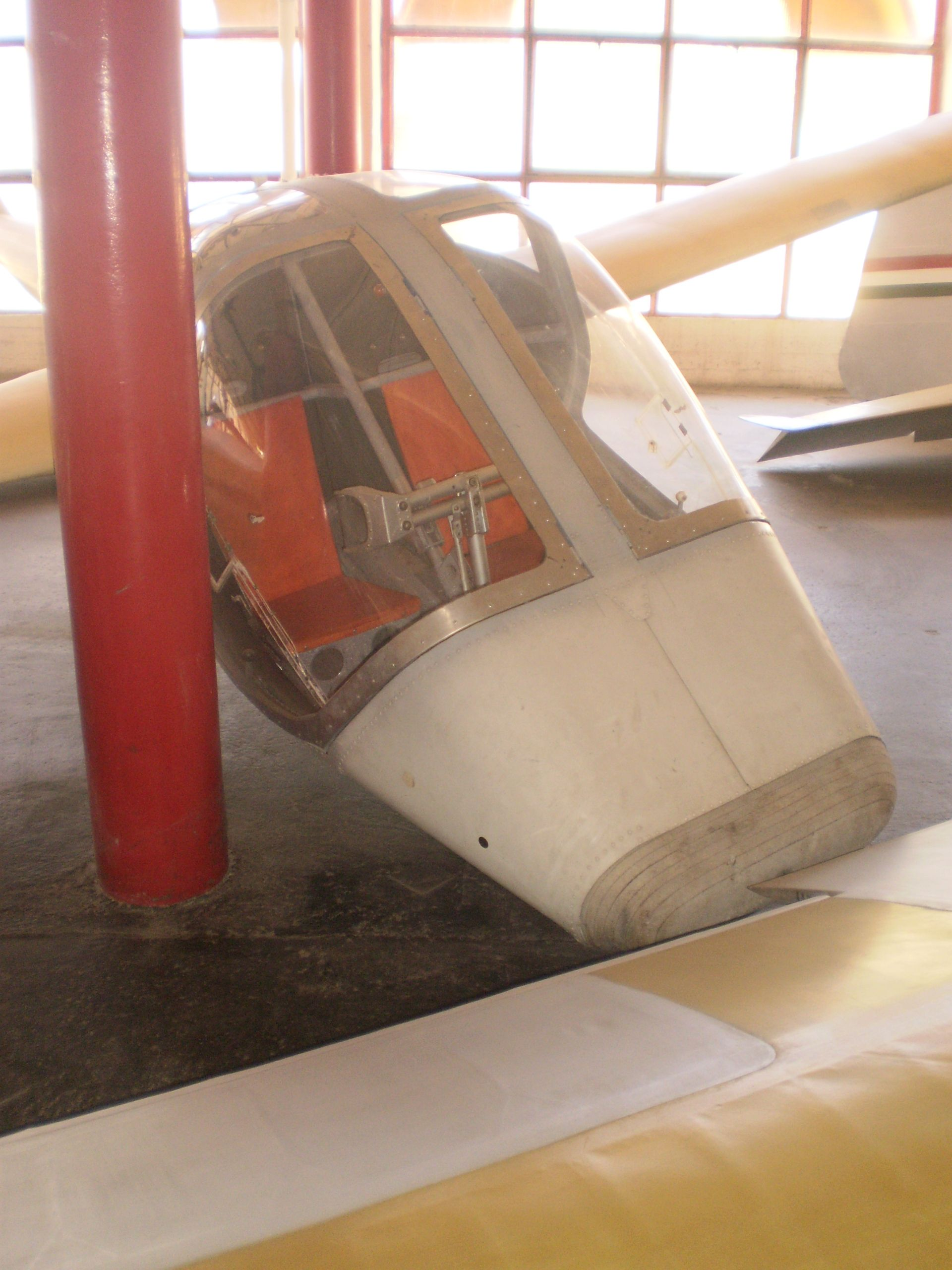 Rubik Dupla glider in the Transport Museum of Budapest